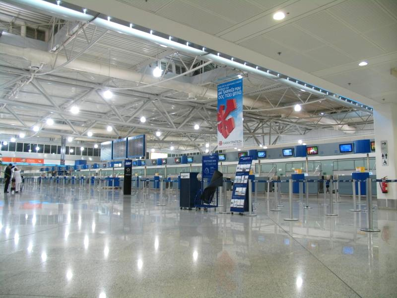 Inside Eleftherios Venizelos International Airport, Athens, Greece. Photo taken 2005.